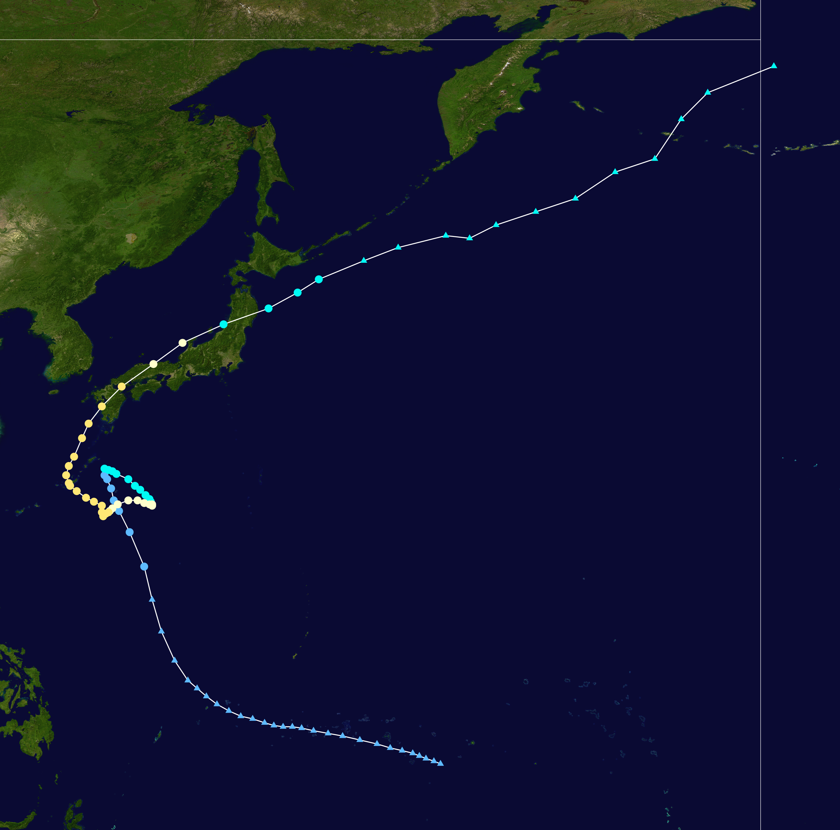 Typhoon Kirk 1996 track. Uses the color scheme from the Saffir-Simpson Hurricane Scale.